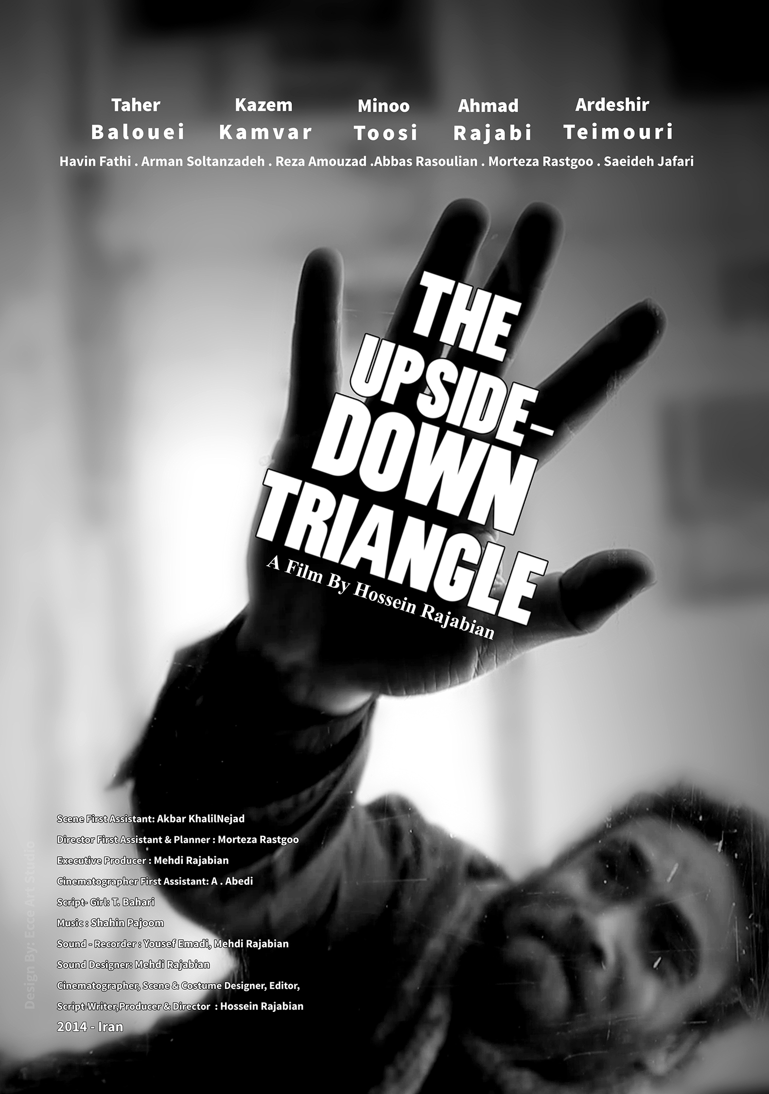 Hossein Rajabian A Film by hossein rajabian حسین رجبیان فیلم